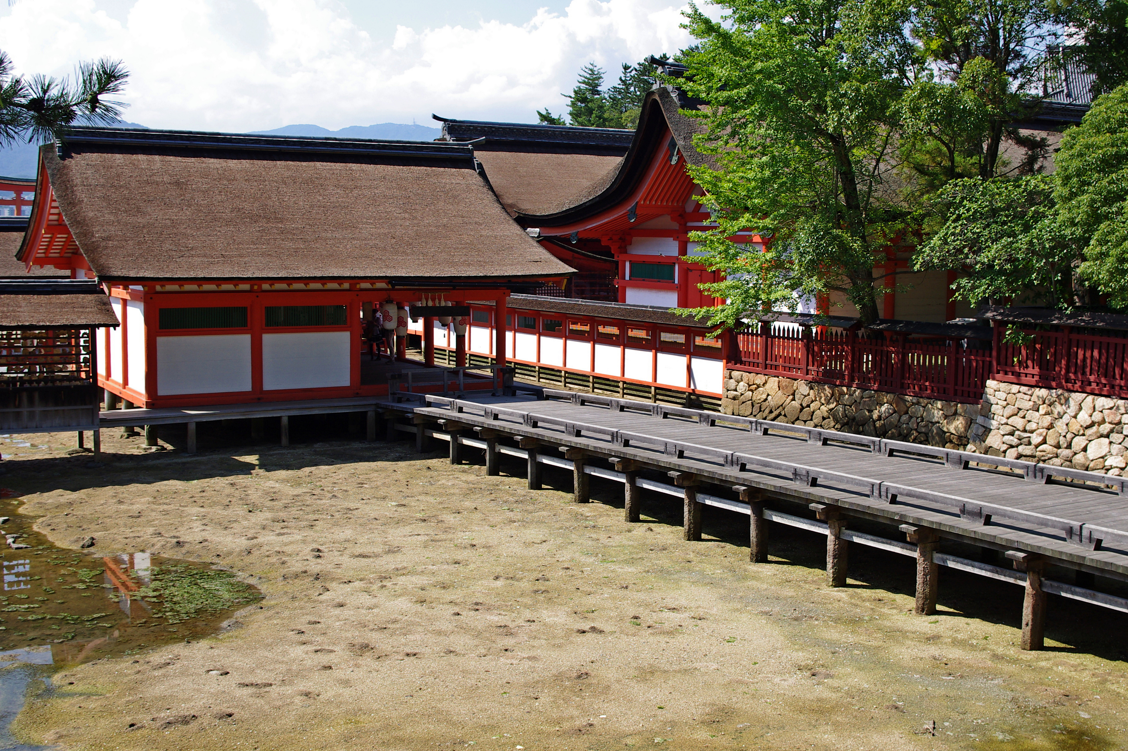 Itsukushima Shrine on Miyajima island during low tide